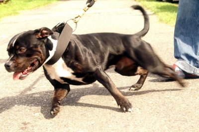 Photo of Staffordshire Bull Terrier - Bull Hunter MARATHON MAN